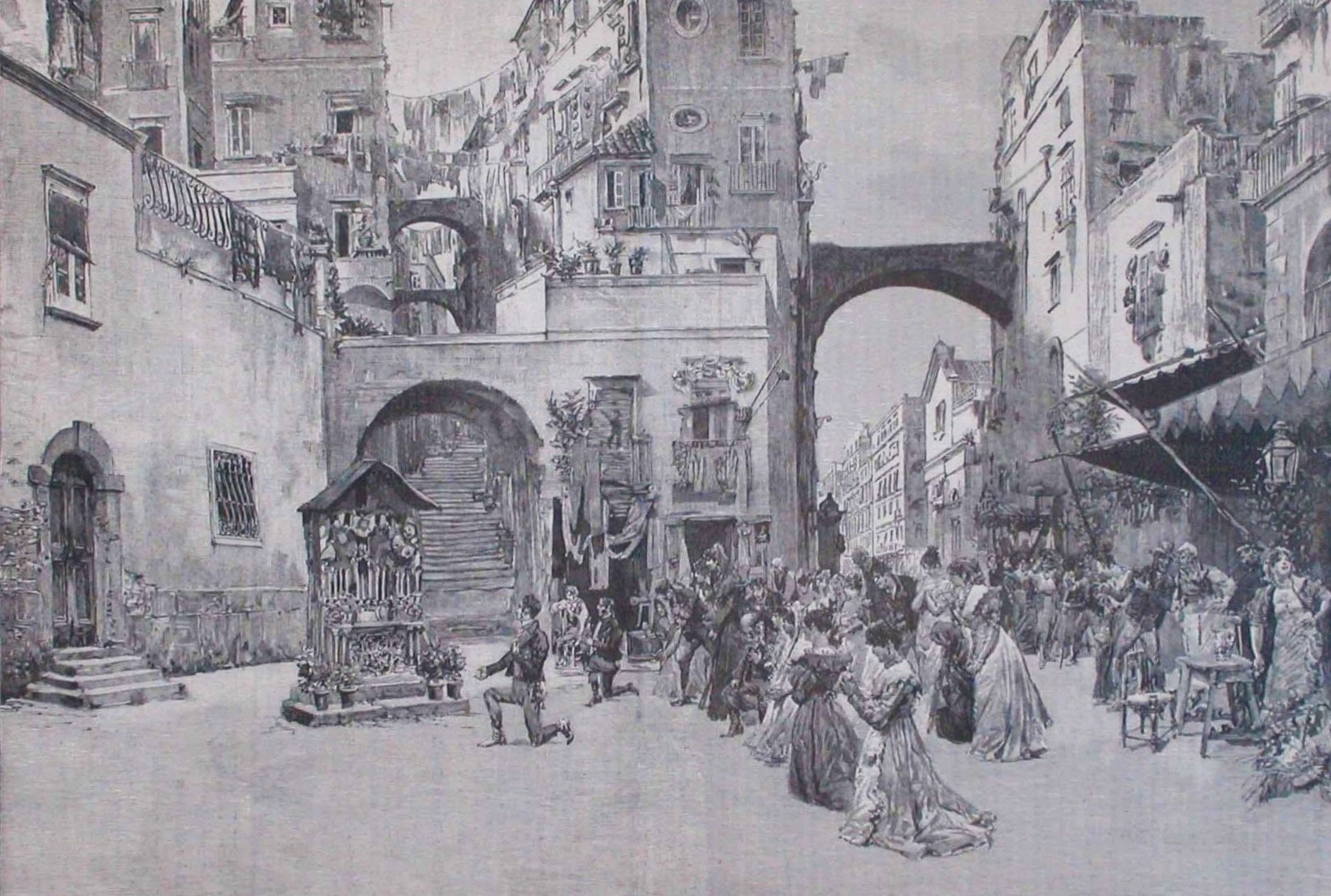 Depiction of the stage scene from Act 1 of Umberto Giordano's opera Mala vita in its performance at the Teatro San Carlo, Naples in April 1892